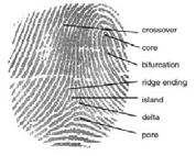 Elements of a fingerprint from official DoD slides from the DoD Biometrics Consortium Conference 13 Sep 2007.